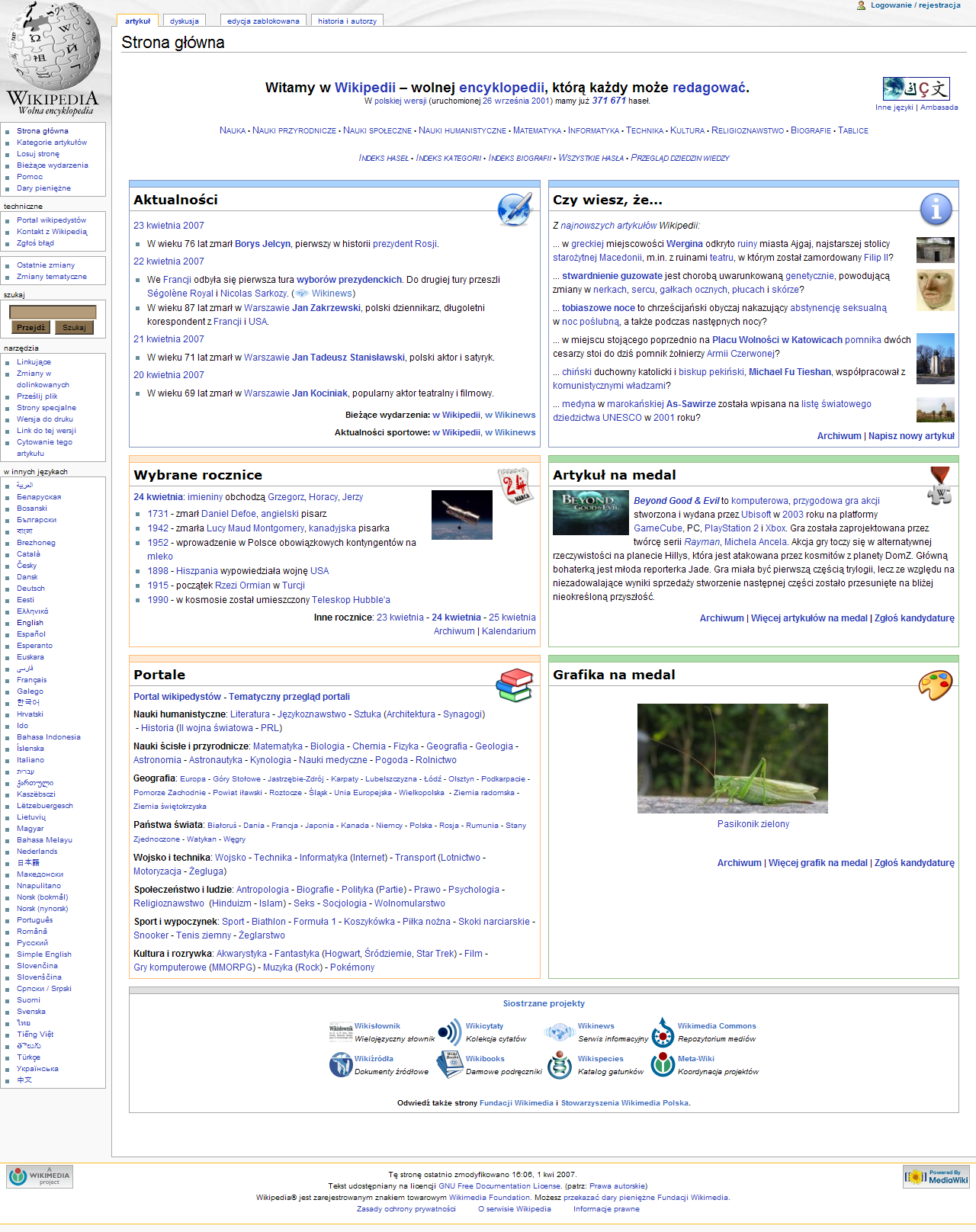 A screenshot of Polish Wikipedia Main Page.